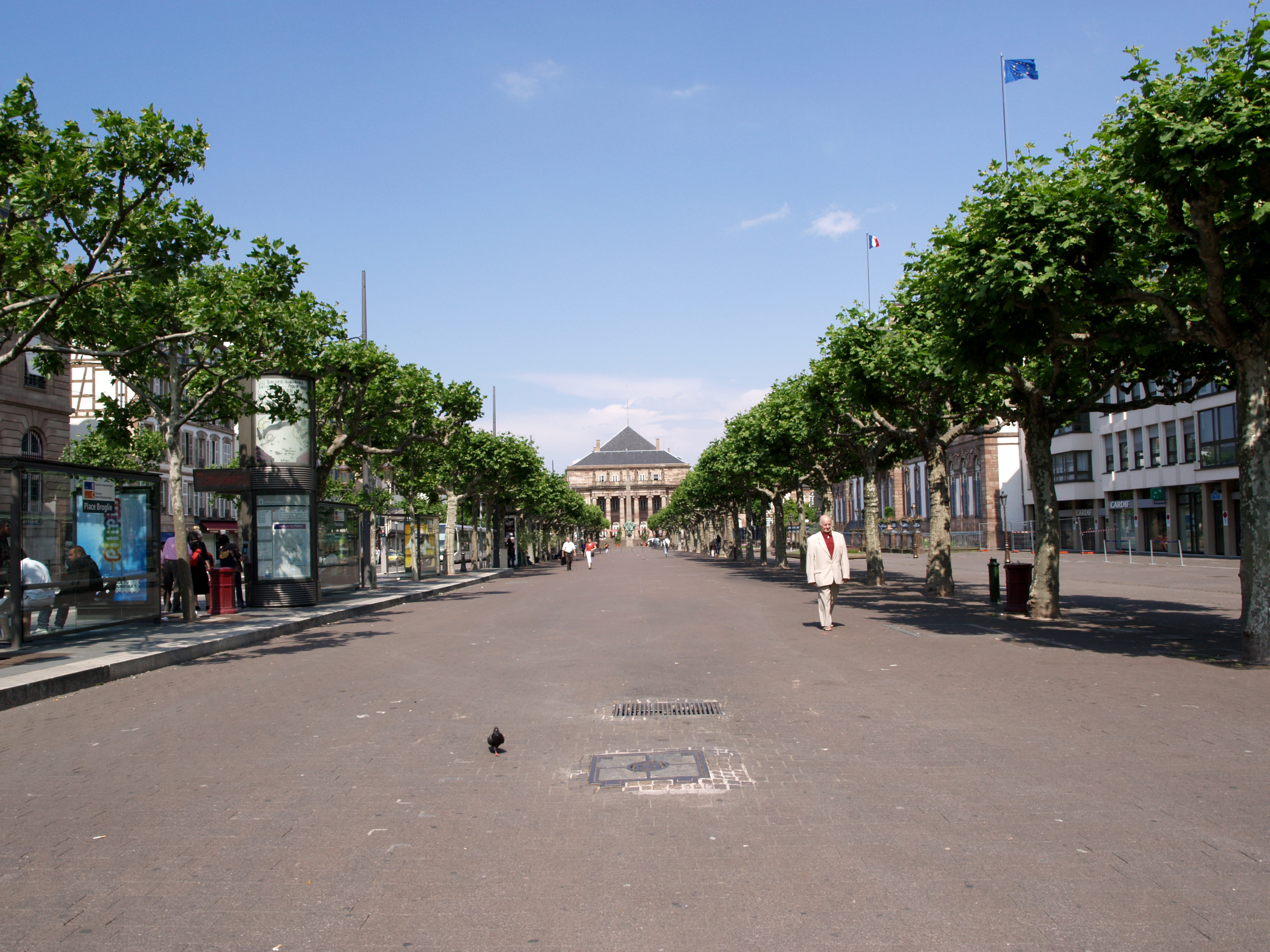 The Broglie place, in Strasbourg